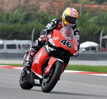 Bimota HB4 Javier Fores